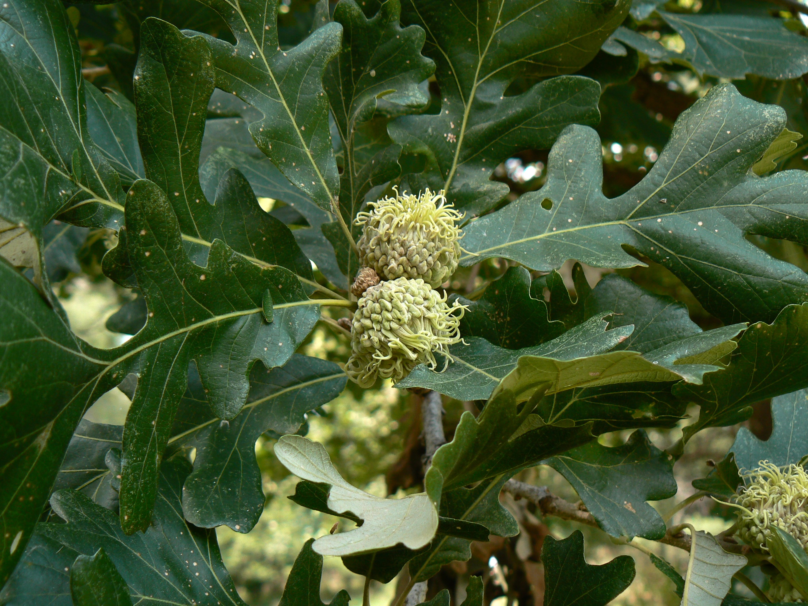 Quercus macrocarpa Bur Oak